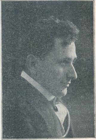 Yervant Tolayan (1883-1937), founder and editor in chief of Gavroche.